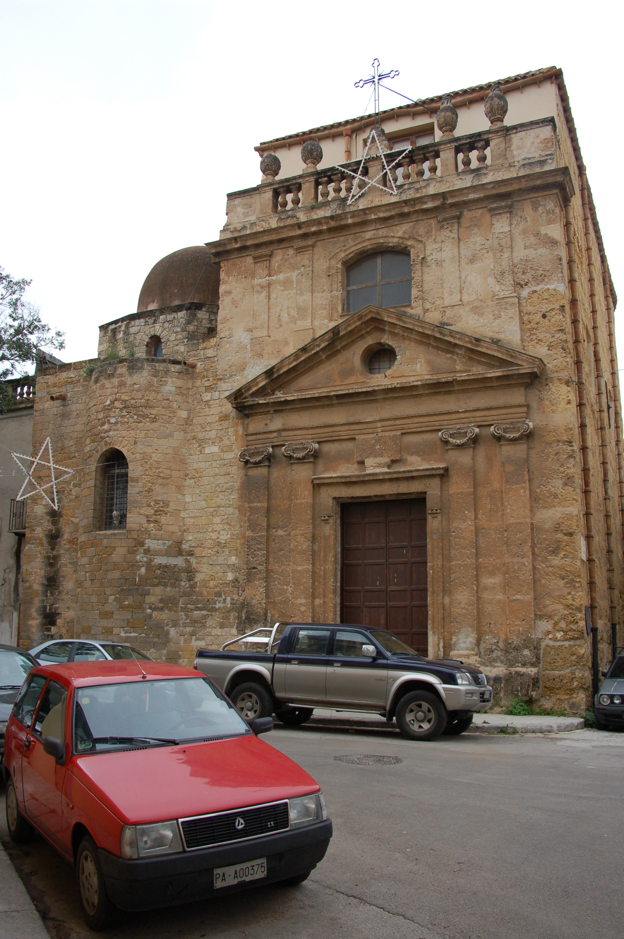 Front view of SS. Trinità alla Zisa (later Sant'Anna) and Chiesa di Gesù, Maria e Santo Stefano in Palermo, ITALY